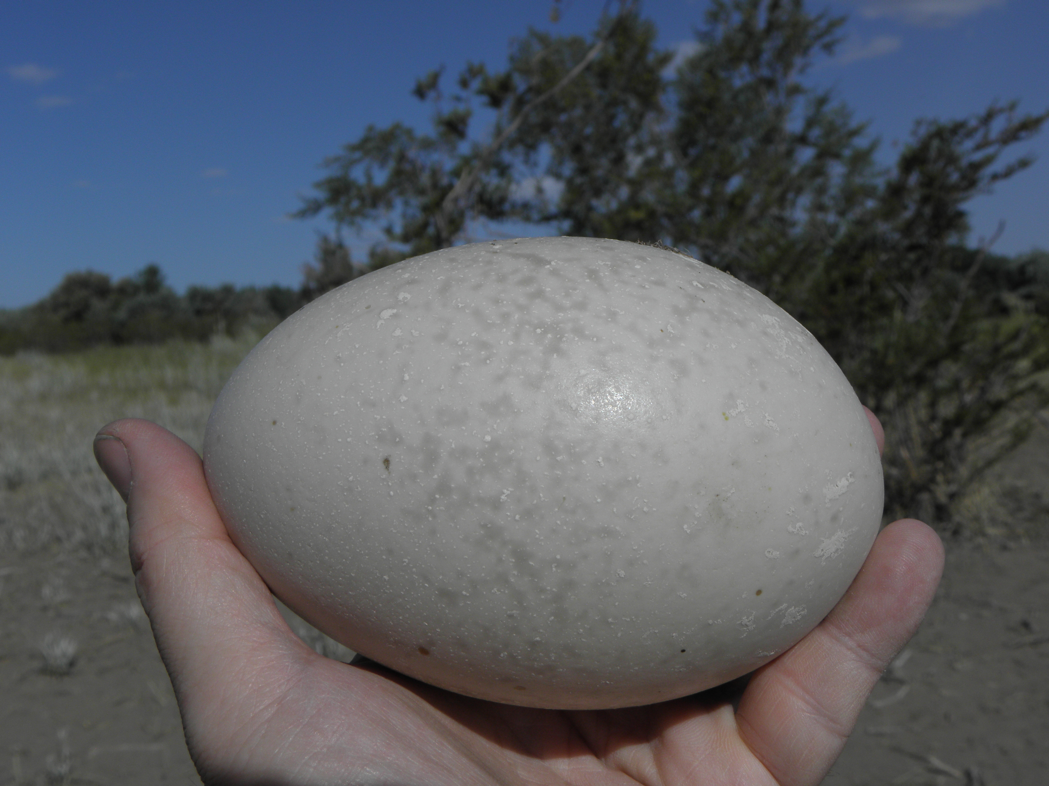 Egg of Patagonian Lesser Rhea.